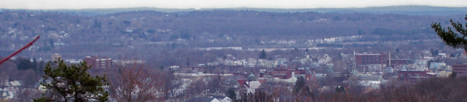 Aerial view of Leominster, Massachusetts from the hills to the west